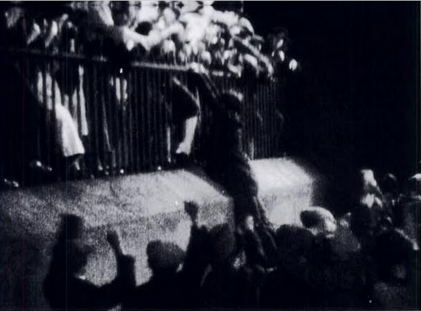 Ivor Novello still of the 1927 film The Lodger A Story of the London Fog, director: Alfred Hitchcock